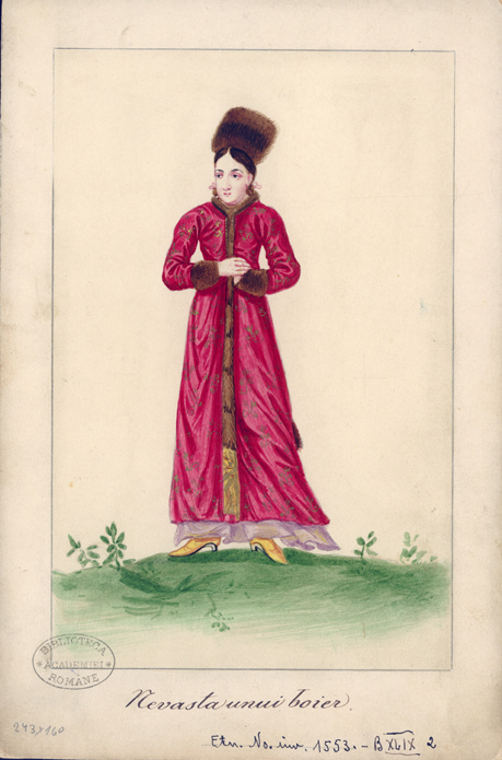 From Trachten-Kabinett von Siebenbürgen album. Drawn in 1729, based on the 1692 watercolours of an artist from Graz Given to the Romanian Academy by Baron Ludovic Czekelius of Rosenfeld. Nevasta unui boier